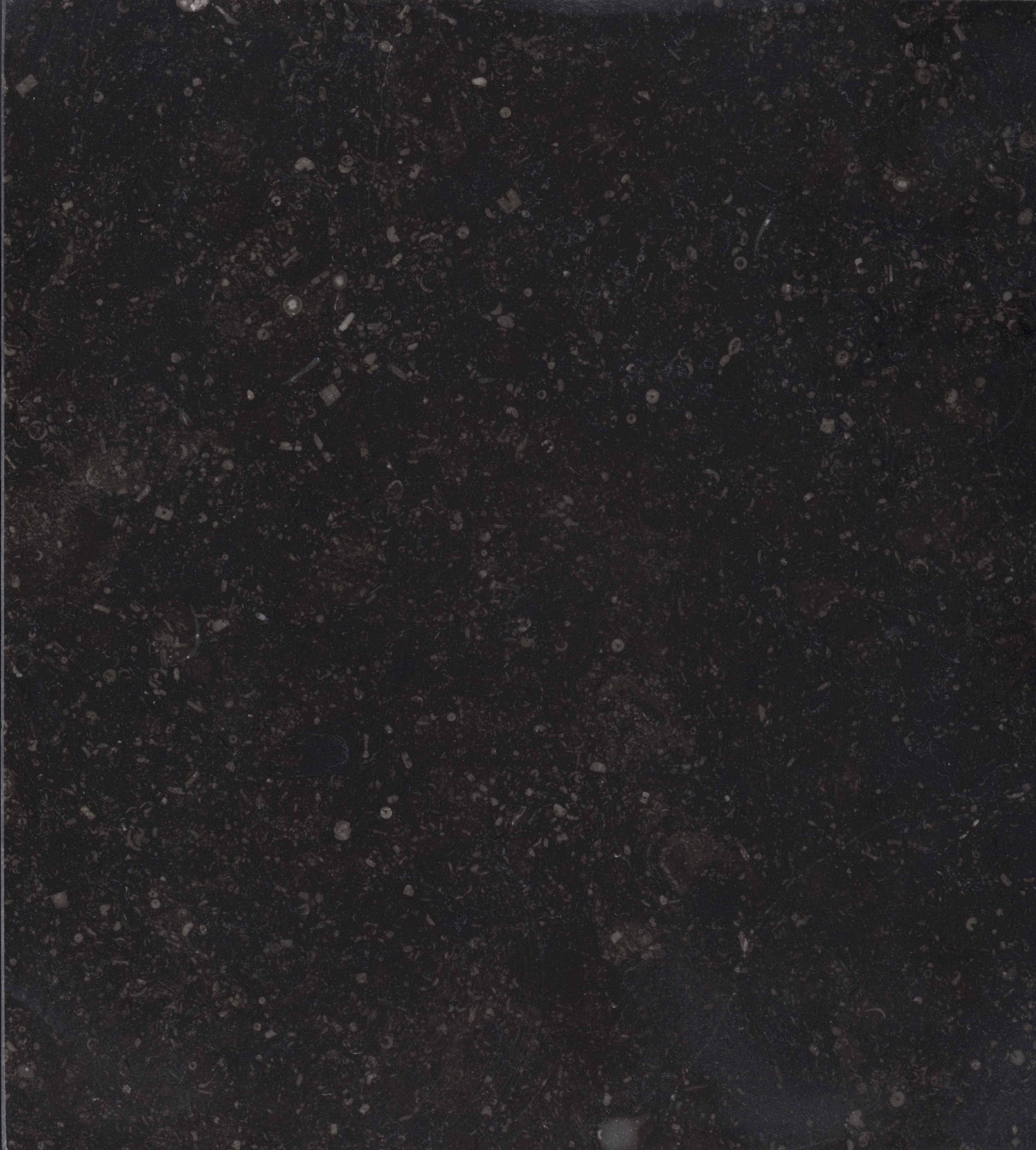 carbon limestone (Tournaisian) with crinoids, Petit Granit (Belgium)